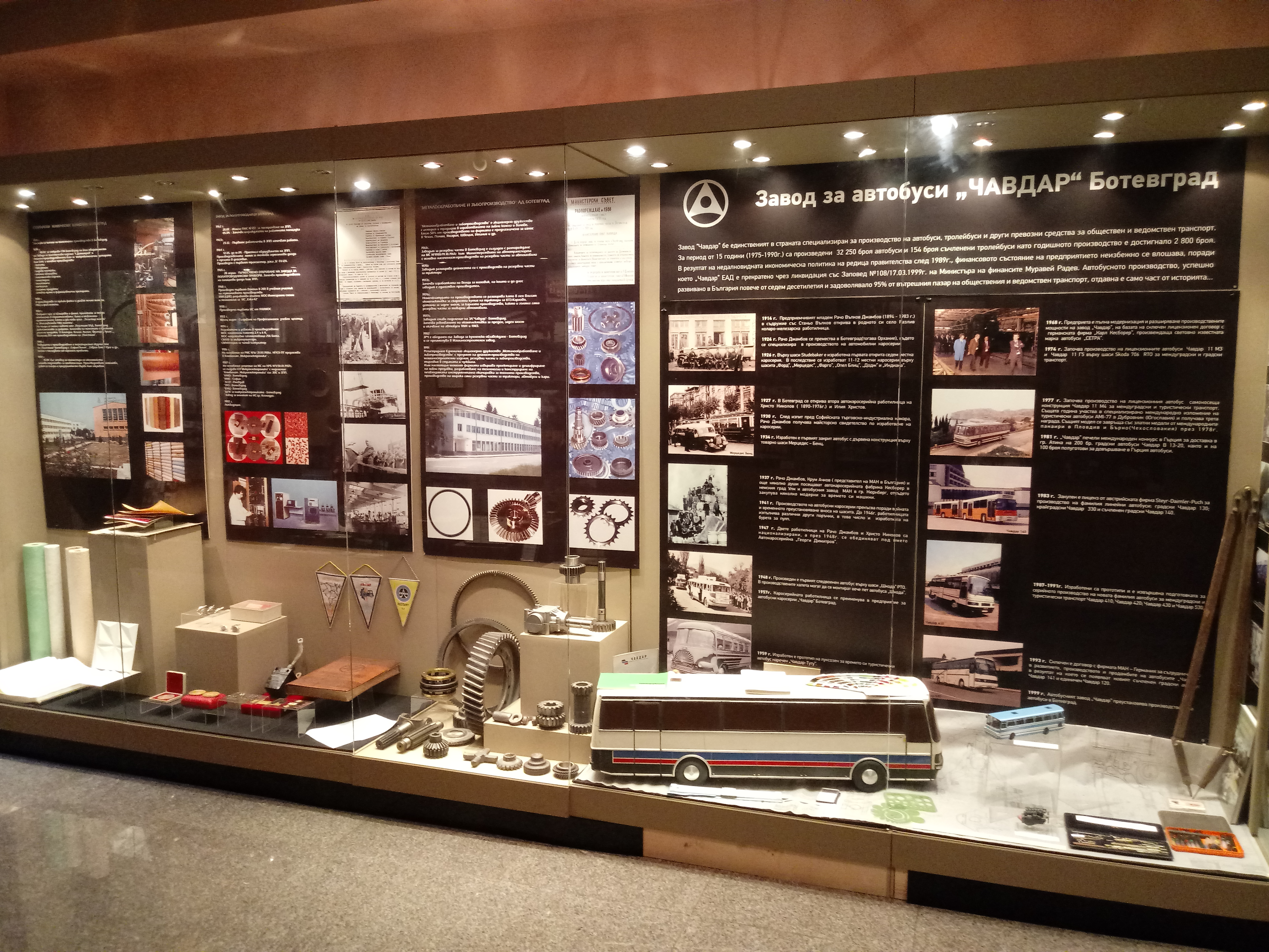 This photo/audio/video was uploaded during the creation of the first wikitown in Bulgaria – WikiBotevgrad. All files are uploaded by their authors or their permission. The cooperation is between Wikimedians of Bulgaria User Group, Municipality Botevgrad, Historical Museum - Botevgrad and Ivan Vazov Library in Botevgrad.